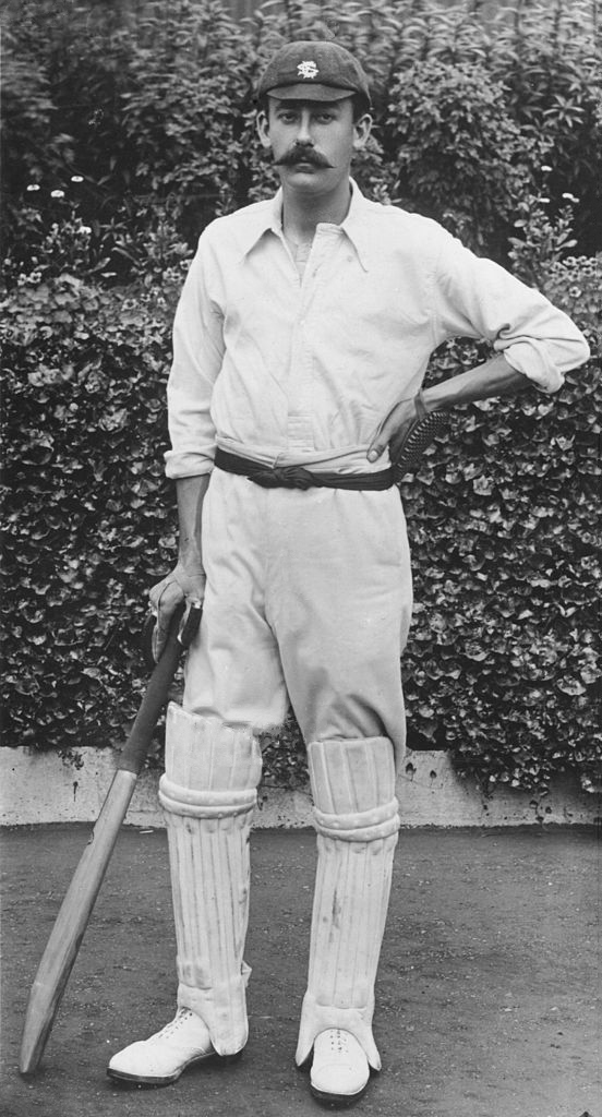 June 1912: The cricketer Ernest George Hayes (1876 - 1953) known as Ernie Hayes, who played for Surrey, Leicestershire and England (1905 - 1912) at a match between Australia and Surrey. Wisden Cricketer of the Year 1907.